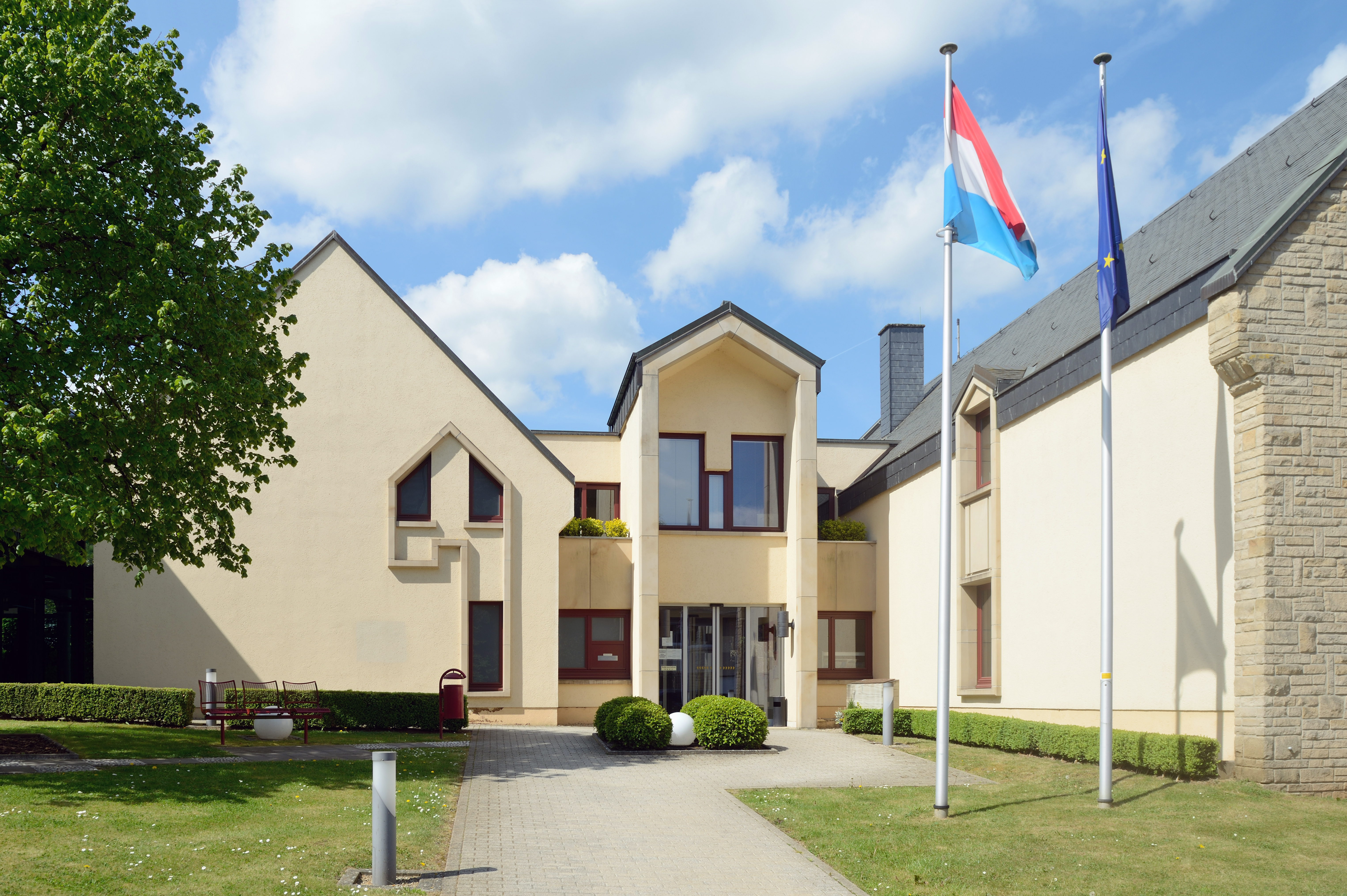 Townhall in Steinsel, Luxembourg.